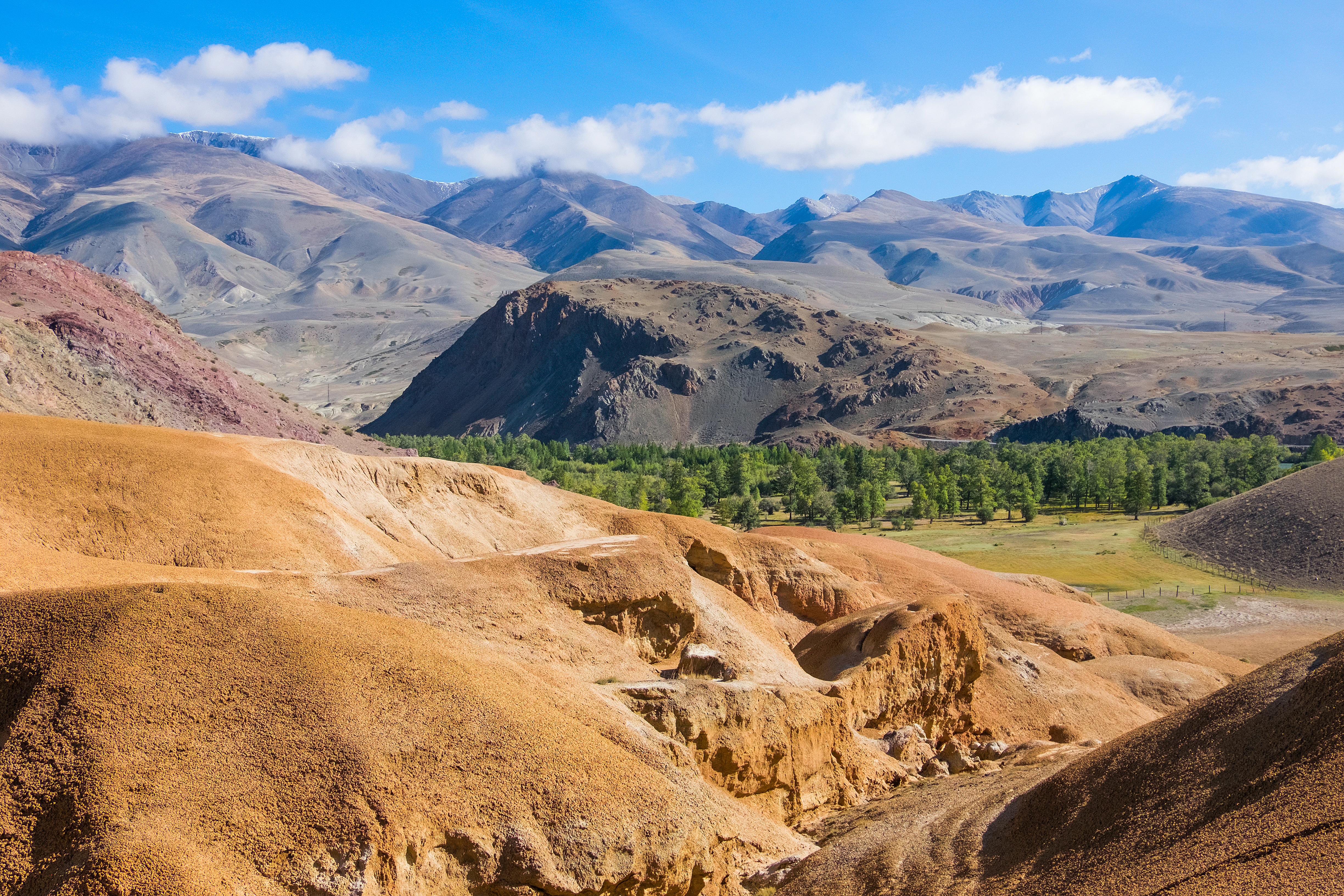 Mountain "Red Hill" in the Southern Altai, in Russia.